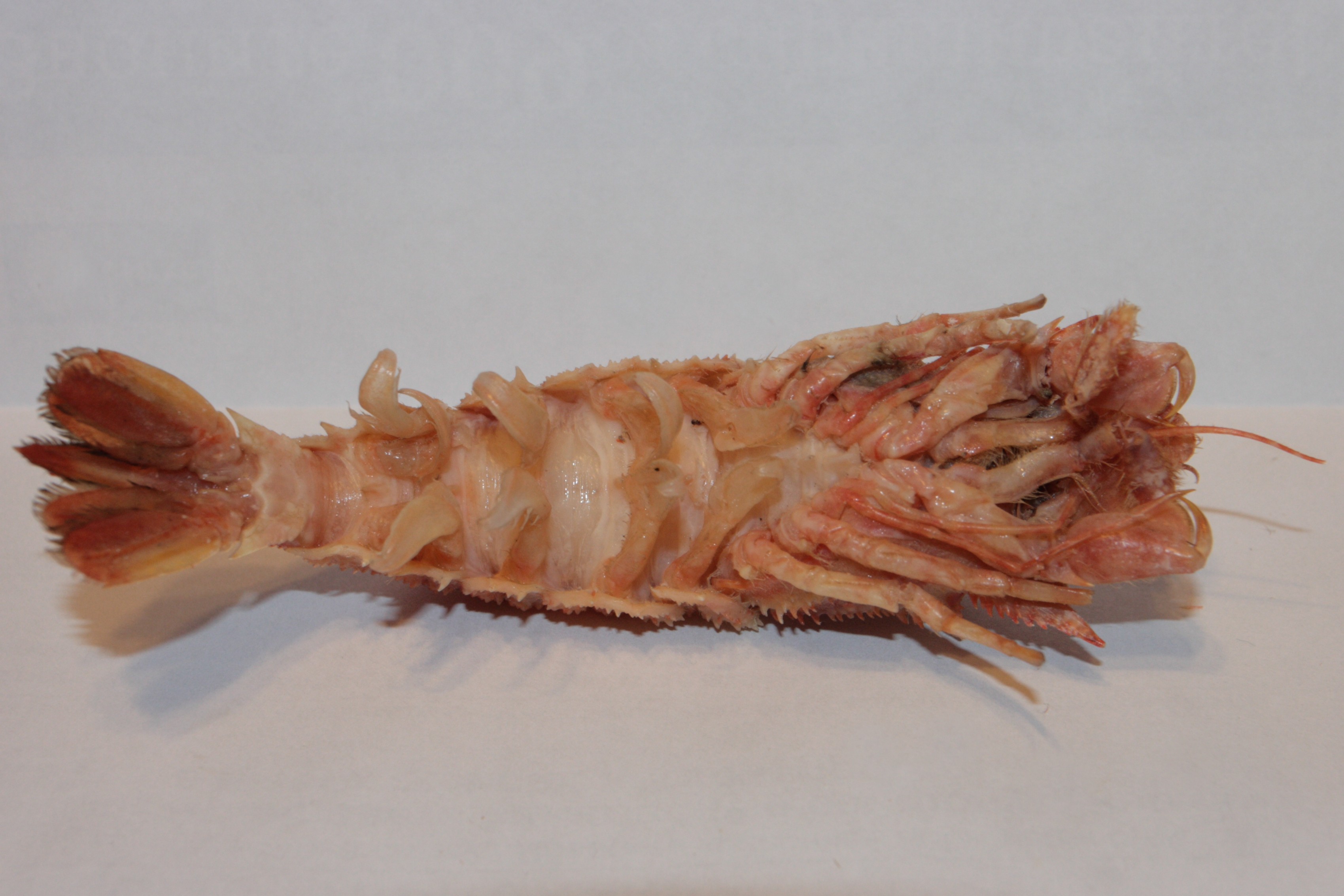 Sclerocrangon salebrosa. Tummy.